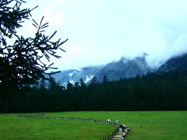 Jade Dragon Snow Mountain, 玉龙雪山